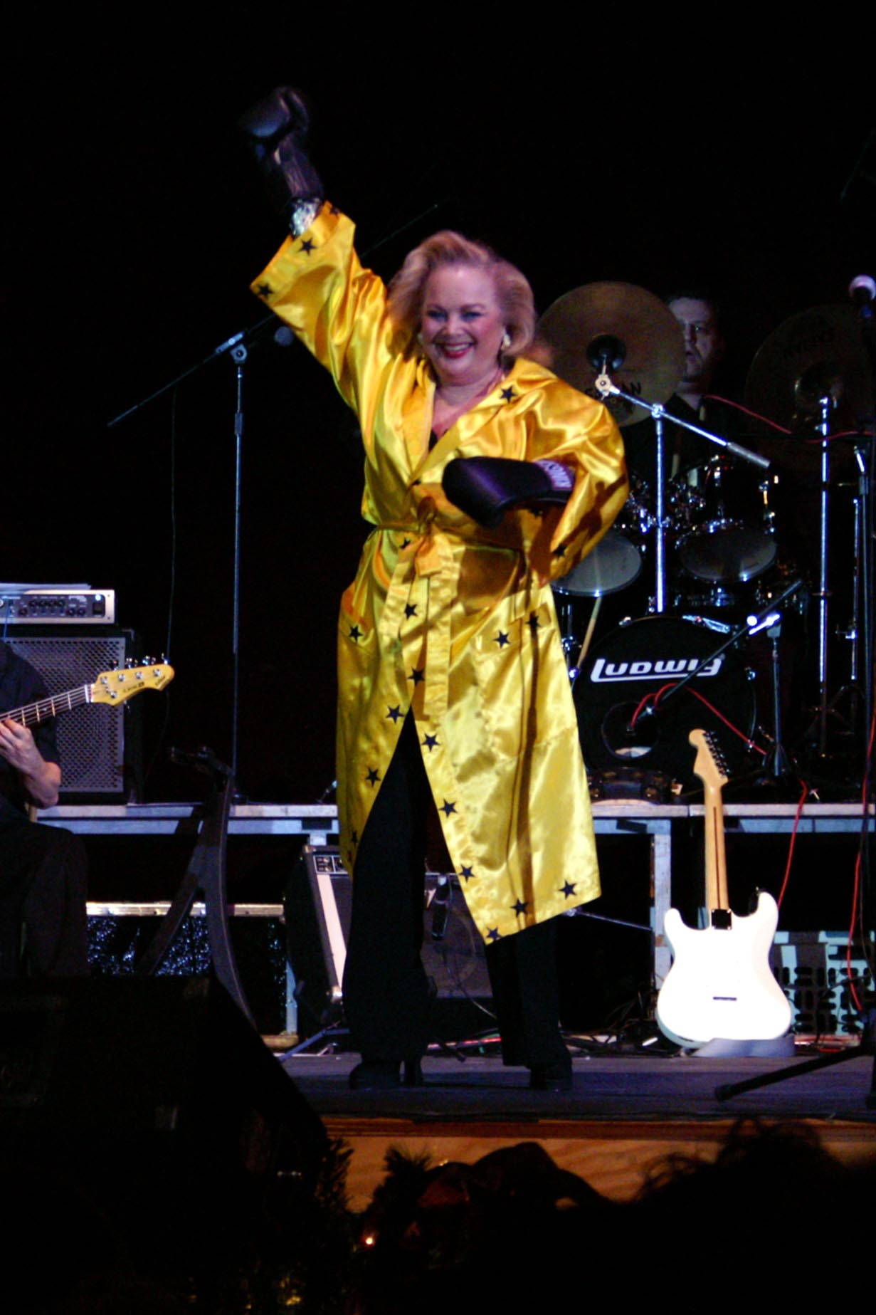 Carol Connors at the Caravan Of Stars XIV show, in Henderson, Tennessee, on November 17th, 2007.